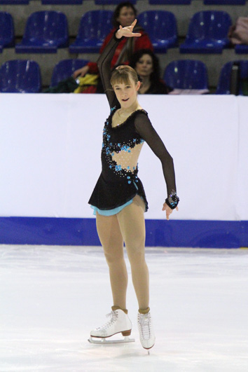 Karina Johnson at the 2010 World Junior Figure Skating Championships